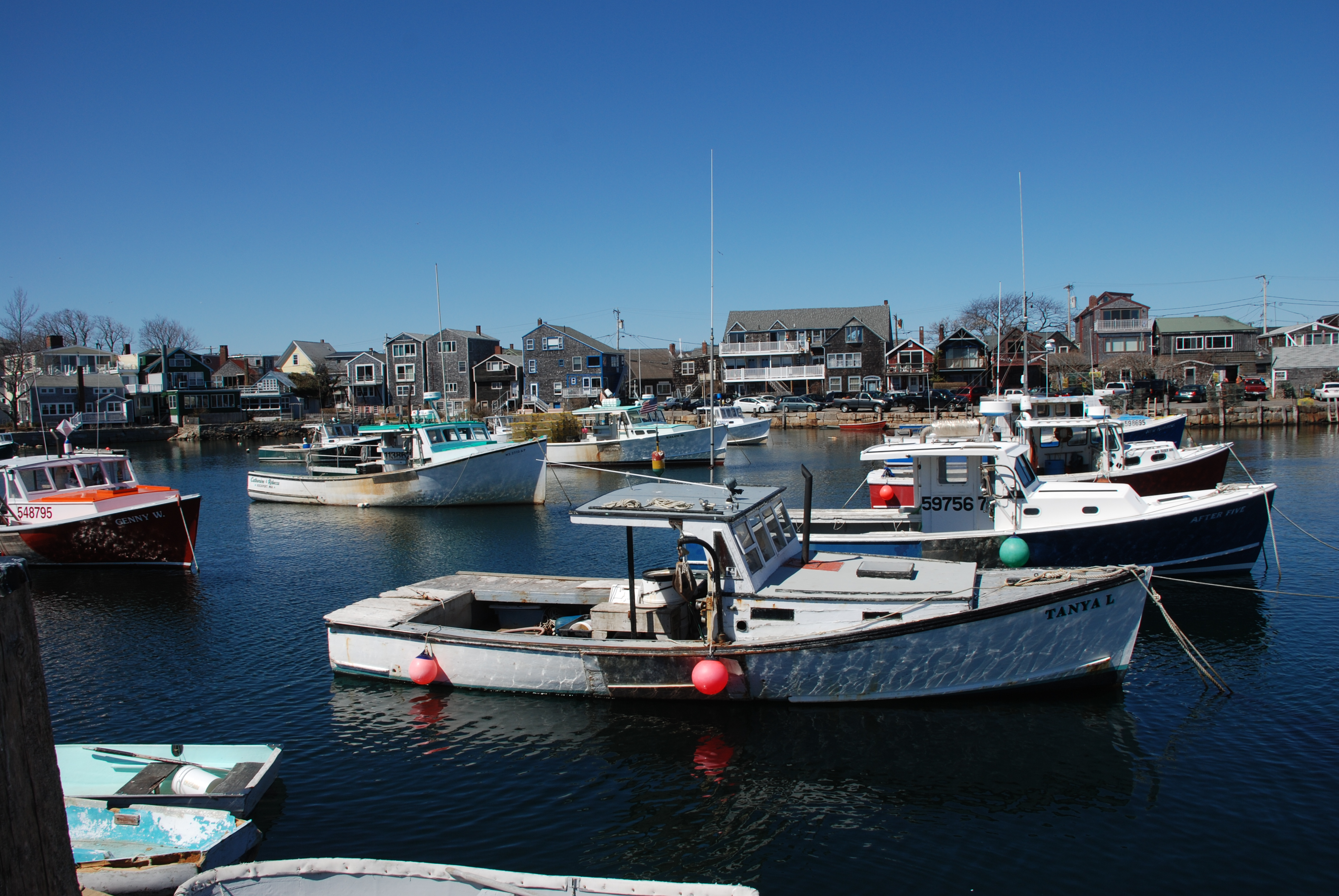 Harbor of Rockport (Massachusetts, USA) with Bearskin Neck behind